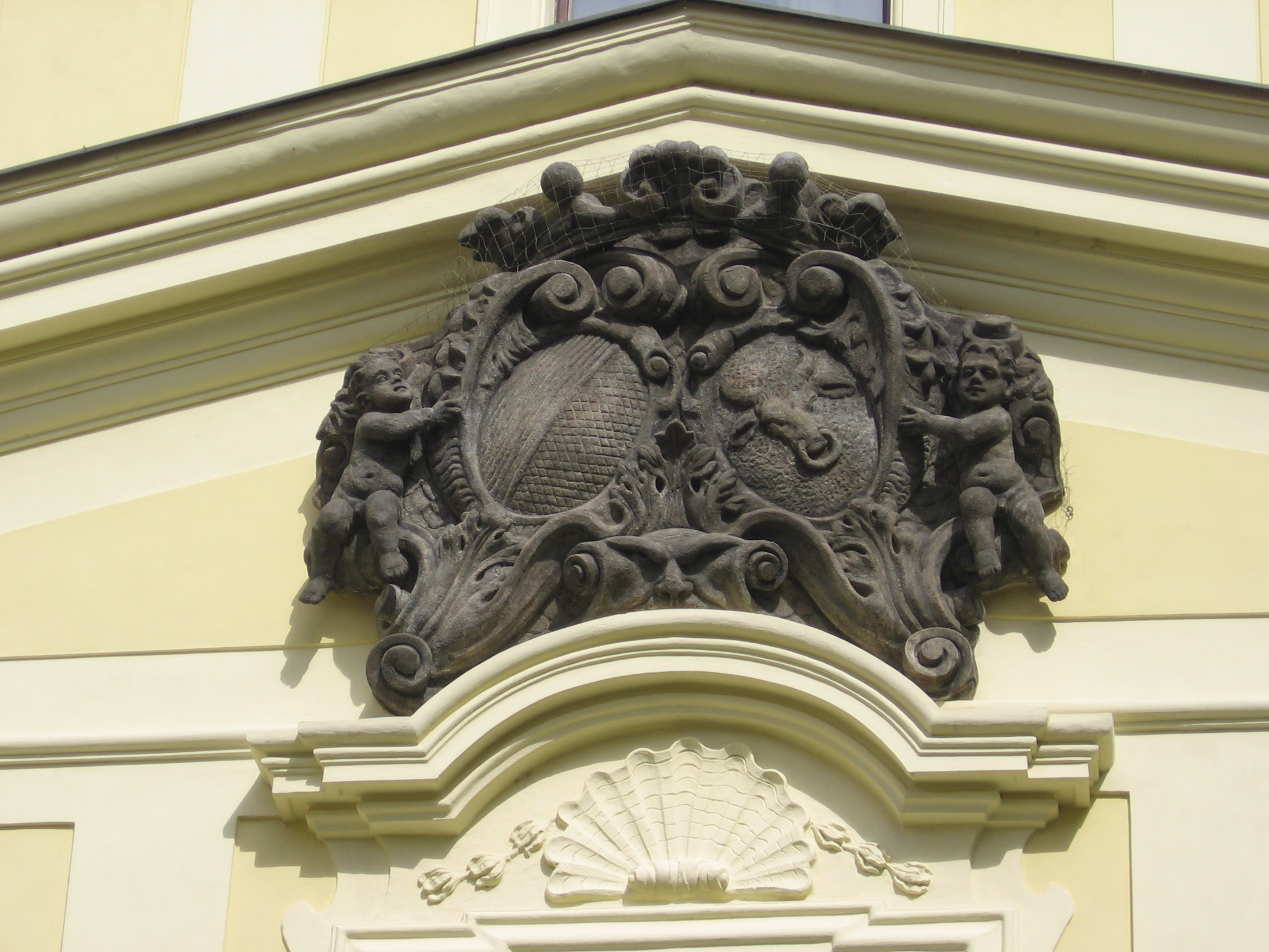 Mirošov, castle, emblem